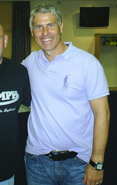 Rob Lee in St James' Park stadium